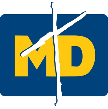 Minuto de Dios (Minute of God) is a Colombian non-profit spirit organization of Catholic religious origin founded by Rafael García Herreros.